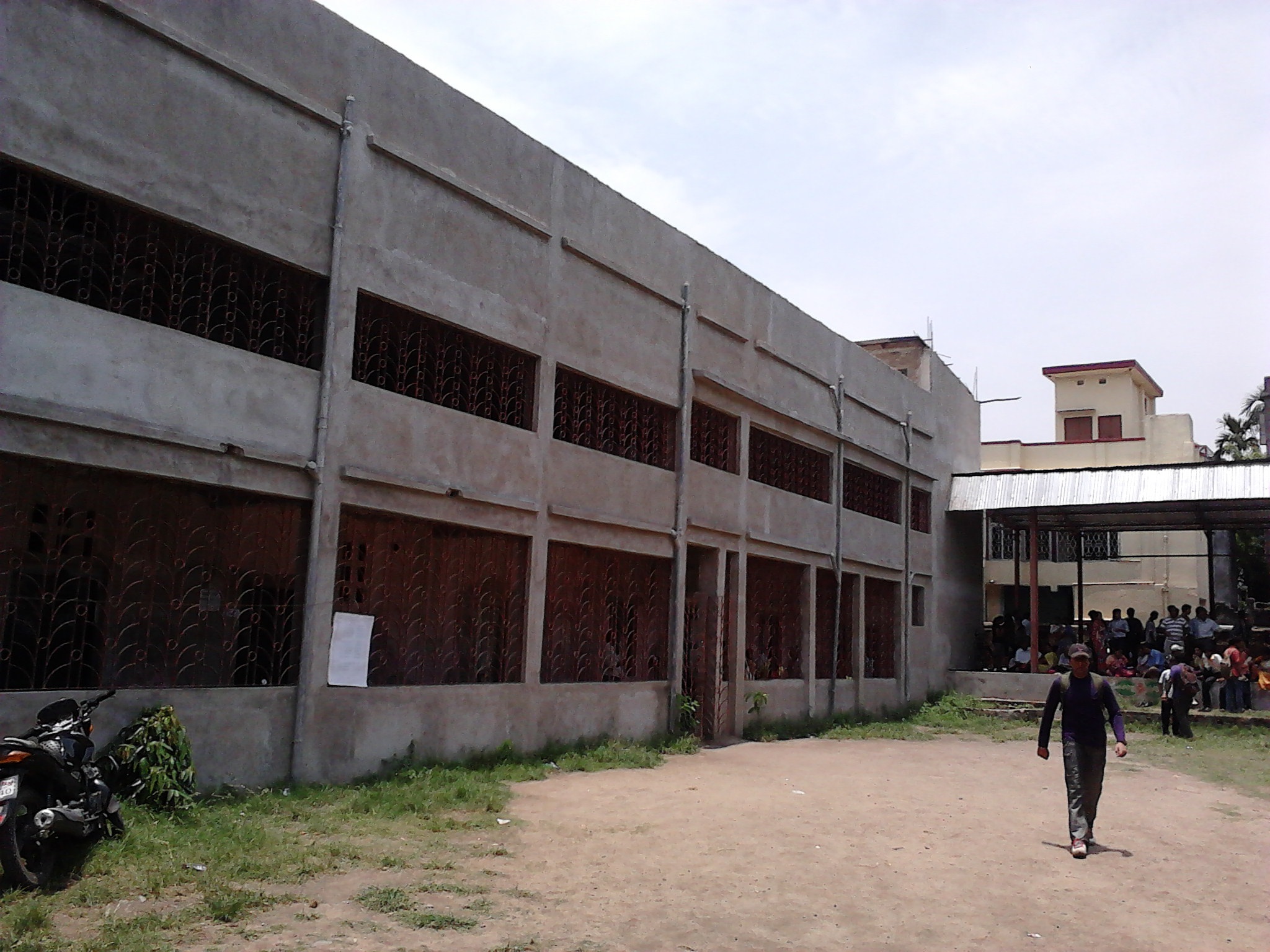 Sibpur Hindu Girls School is under West Bengal Board of Secondary Education (WBBSE) in Bengali medium high school for girls, established on 1867.